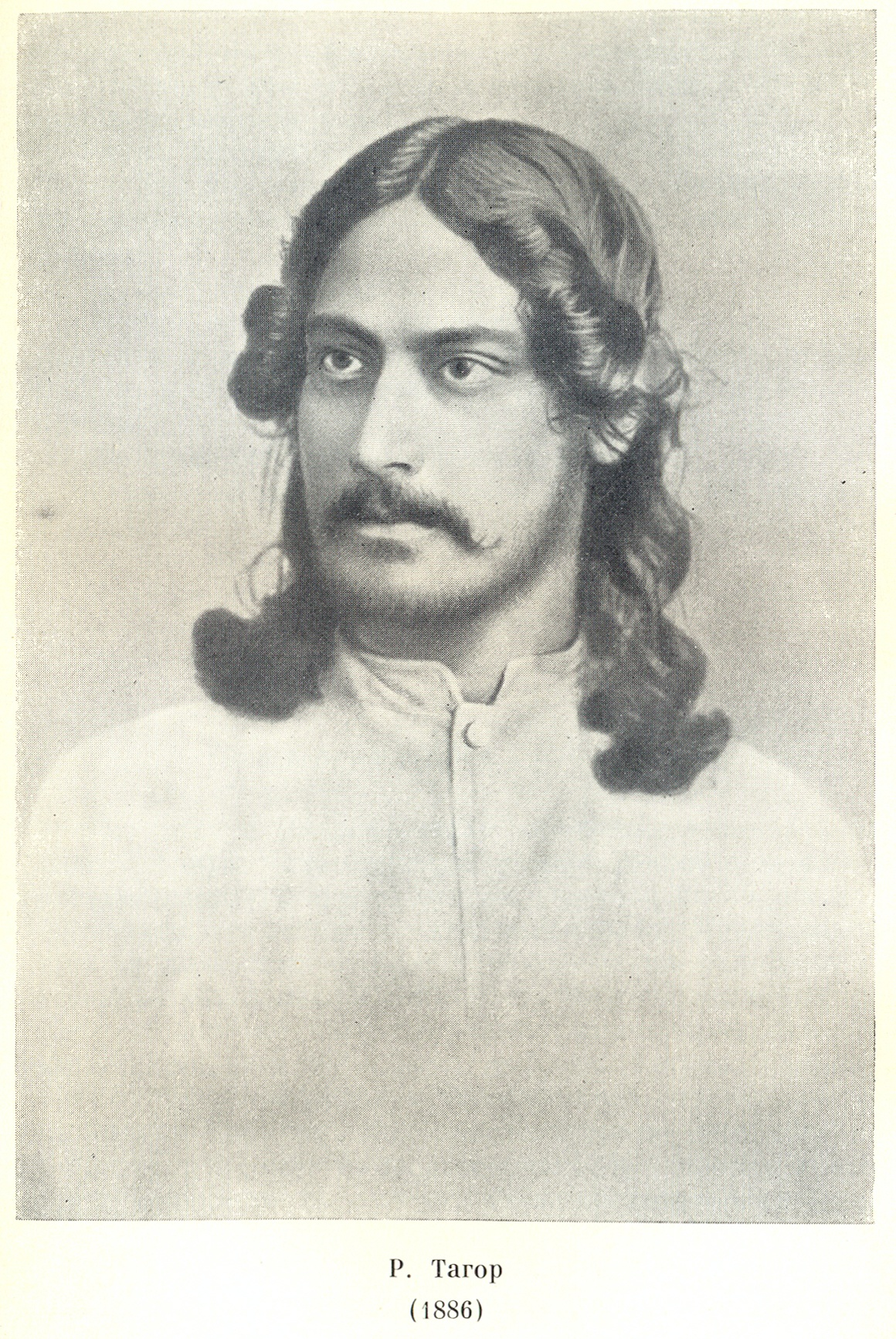 Rabindranath Tagore